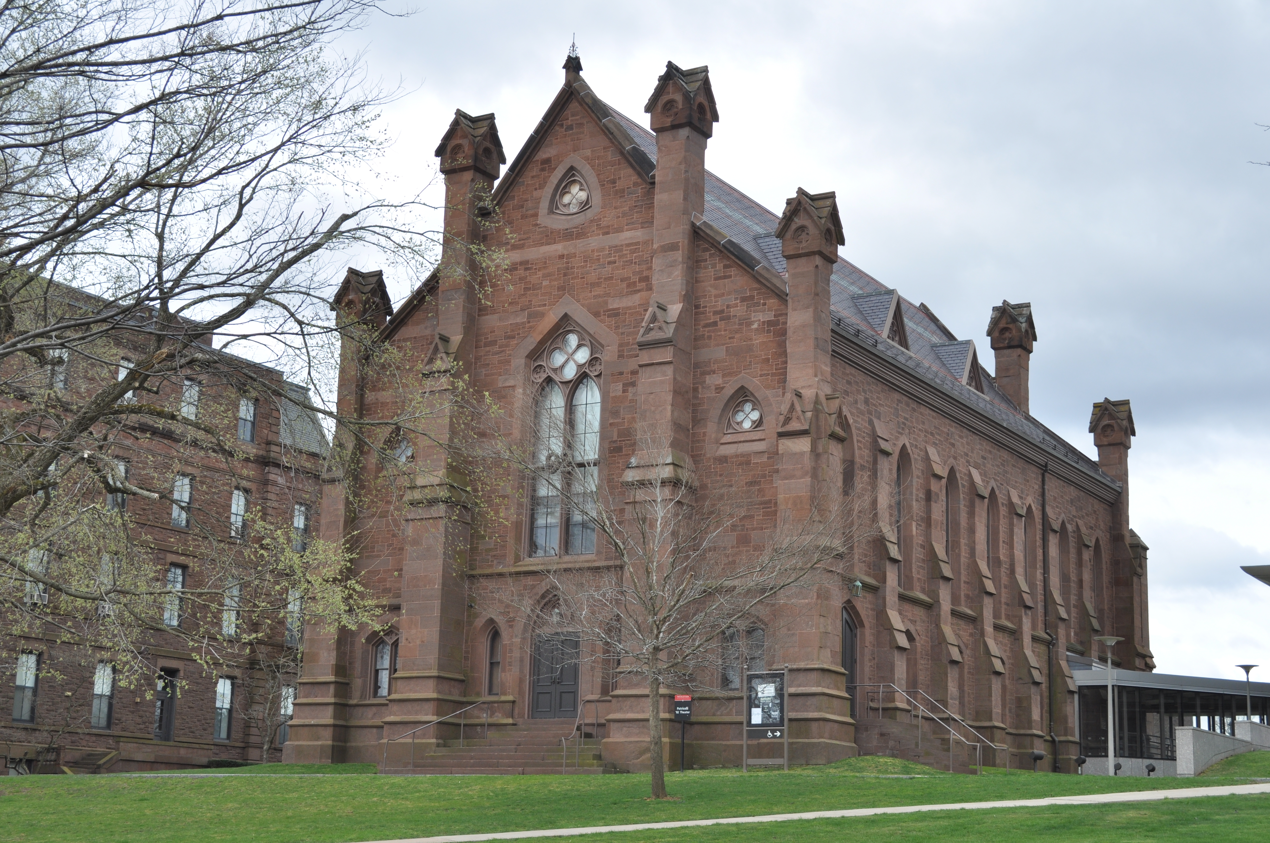 Patricelli '92 Theater, College Row, Wesleyan University, Middletown, Connecticut, USA.